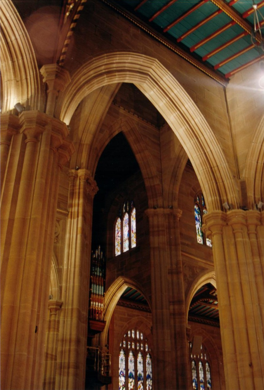 Sydney, St. Andrew's Anglican Cathedral, view across the nave to the south transept